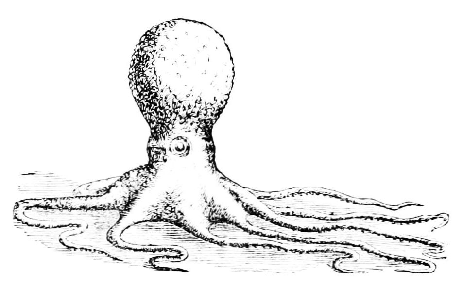 An octopus running